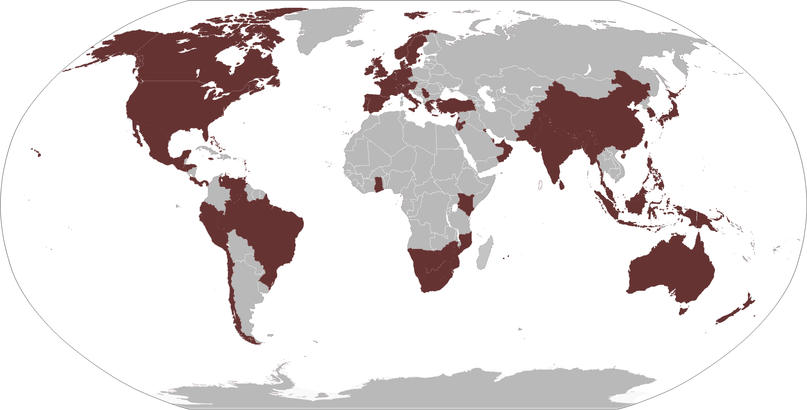 World map, highlighted to show regions in which the Royal Academy of Dance operates.